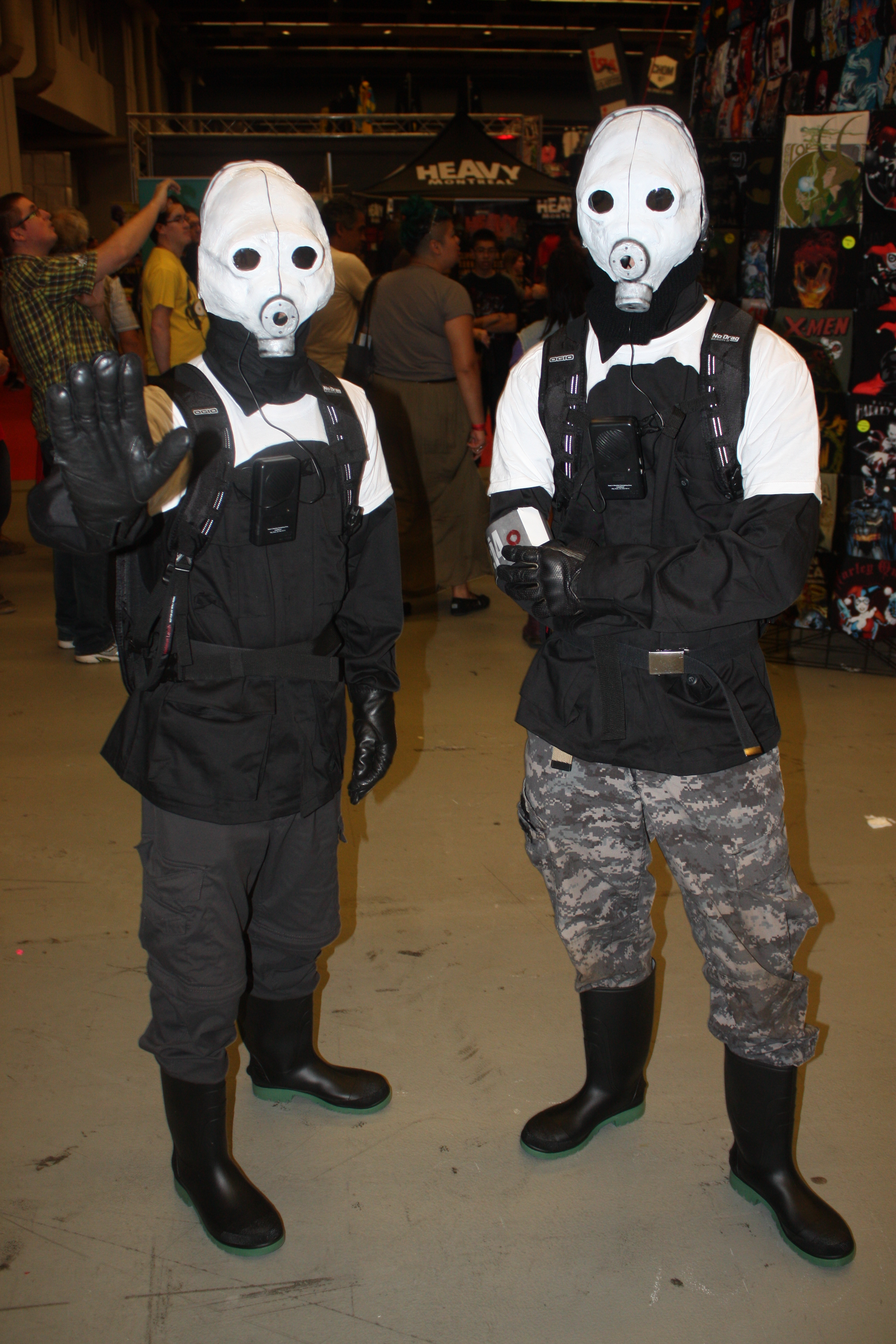 Cosplay one day two of Montreal Comiccon 2015.